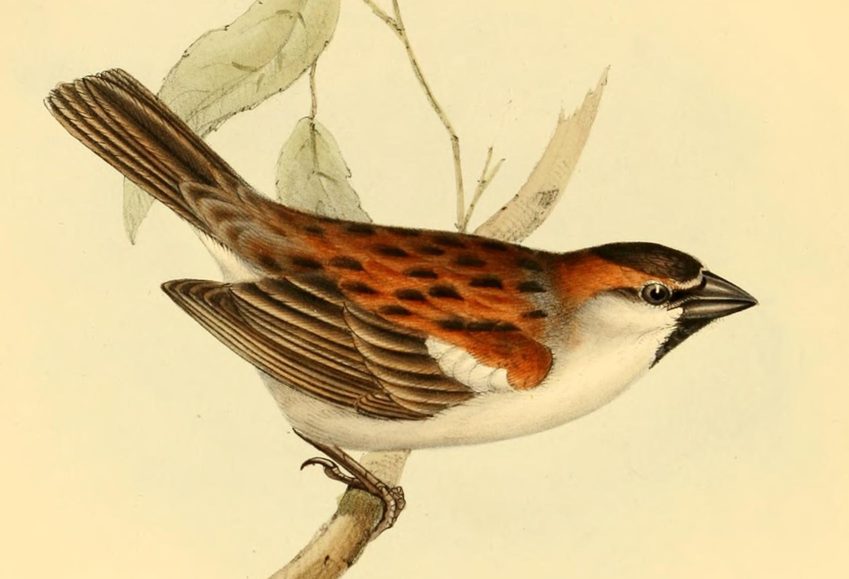 A detail of an illustration of a male Iago Sparrow (Passer iagoensis) by John Gould